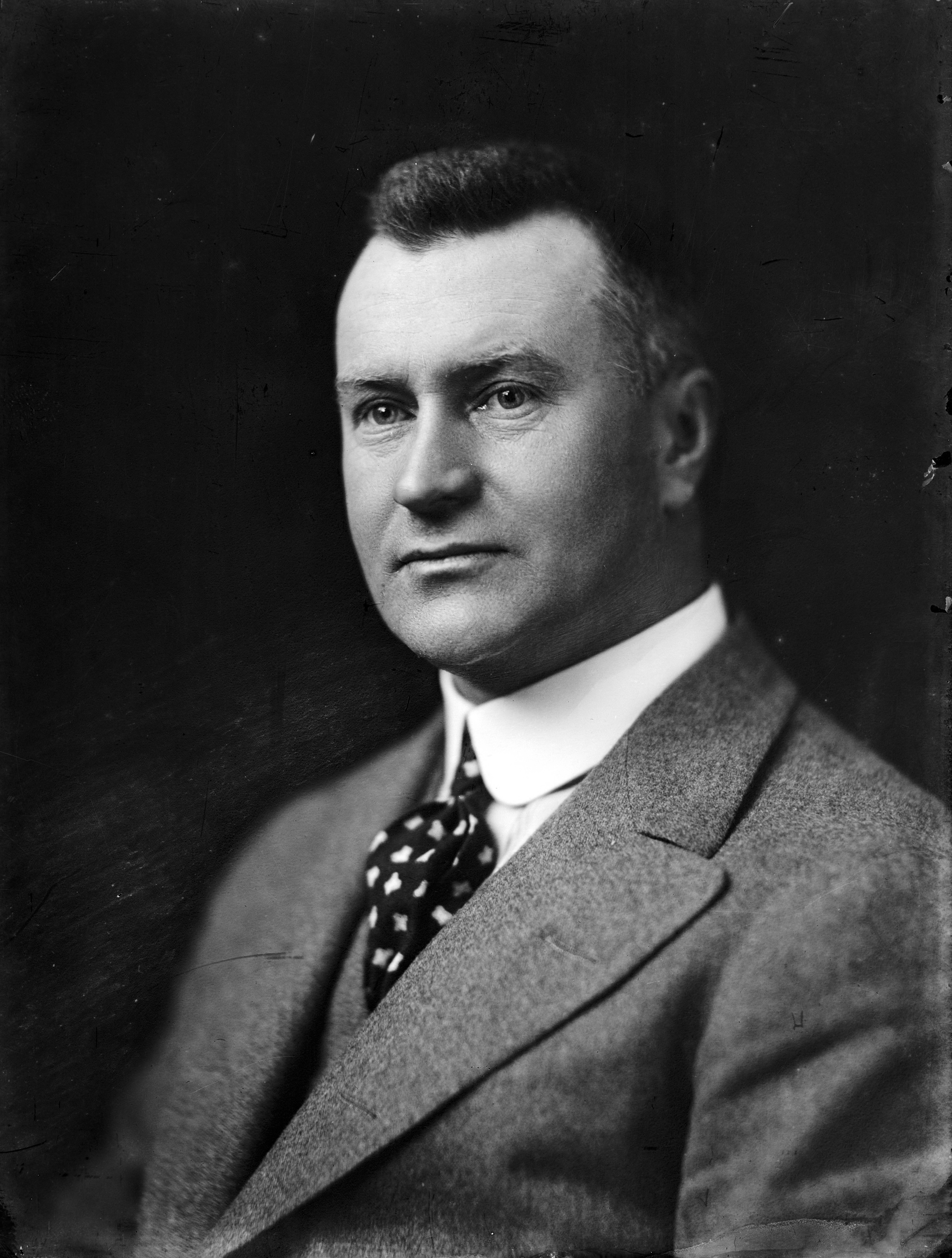 Thomas Mason Wilford, 30 November, 1909, photographed by S P Andrew Ltd.